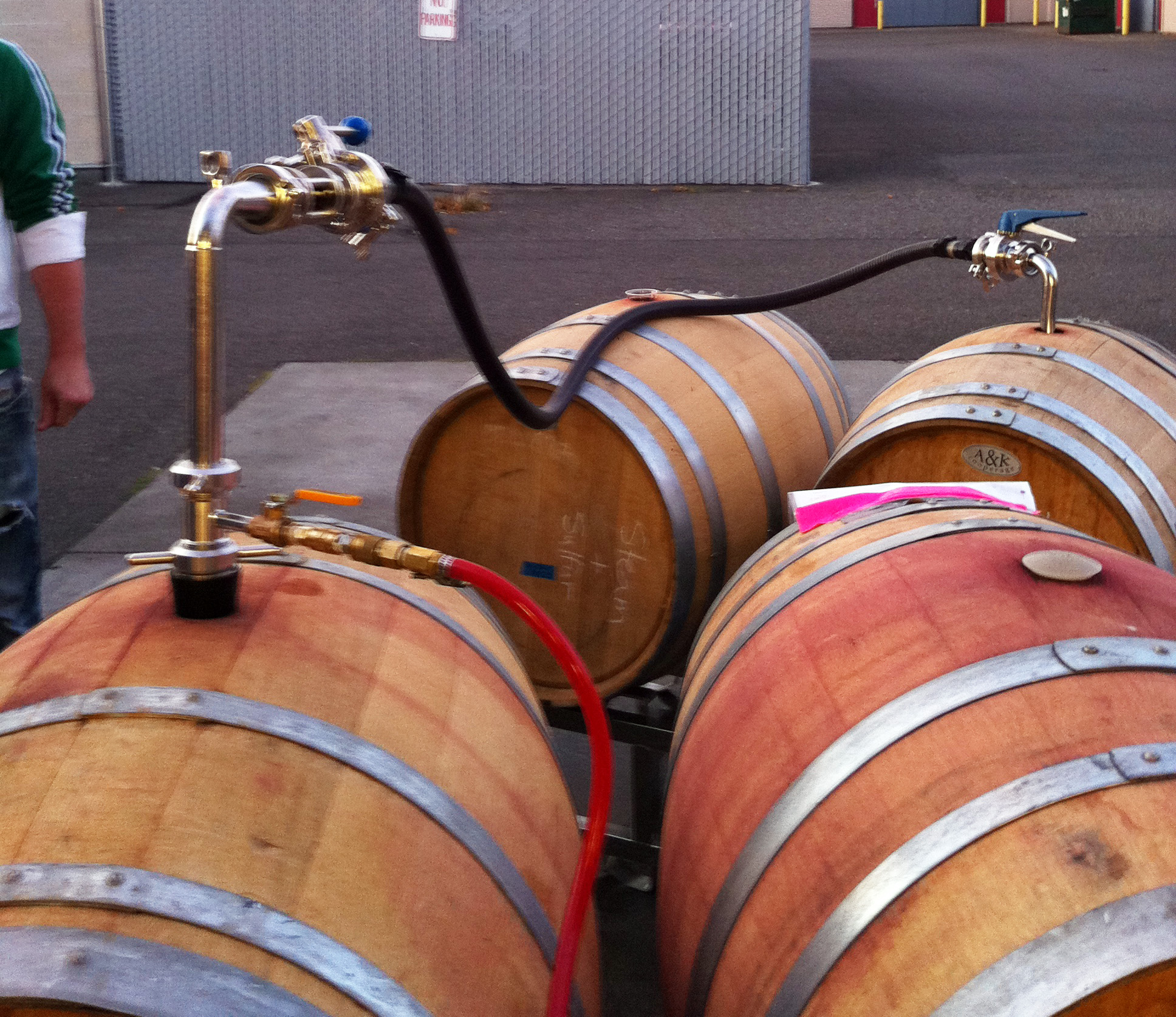 Wine being racked and transferred between barrels at a winery.